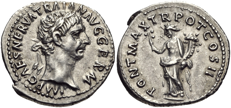 Traianus. AD 98-117. AR Denarius (19mm, 3.40 g, 6h). Rome mint. Struck February-October AD 98. IMP CAES NERVA TRAIAN ΛVG GERM Laureate head right PONT MAX TR POT COS II Pax standing facing, head left, holding olive branch and cornucopia. RIC II 17; RSC 292. Near EF, lustrous.